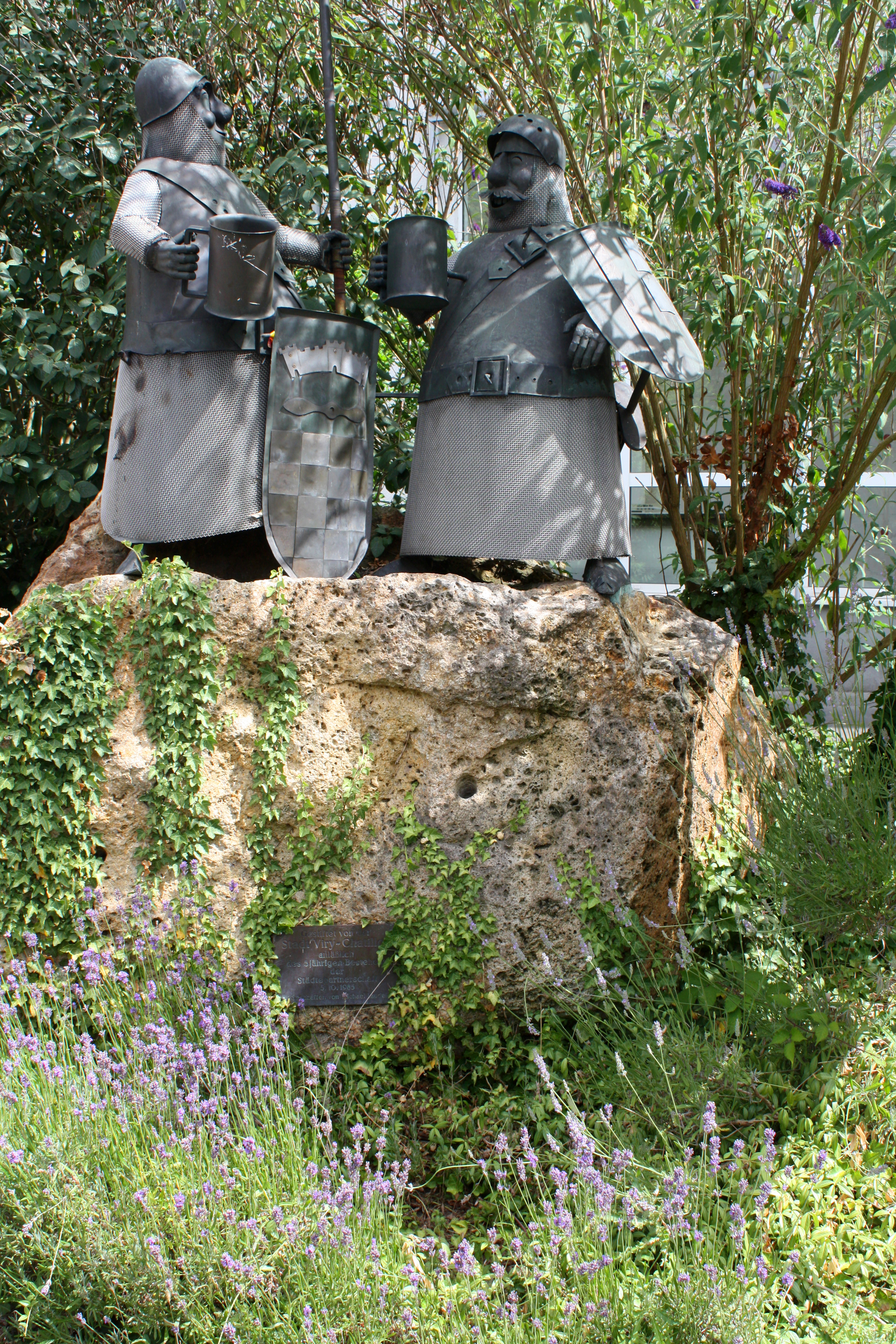 Erftstadt, present of the twin town of Viry-Châtillon